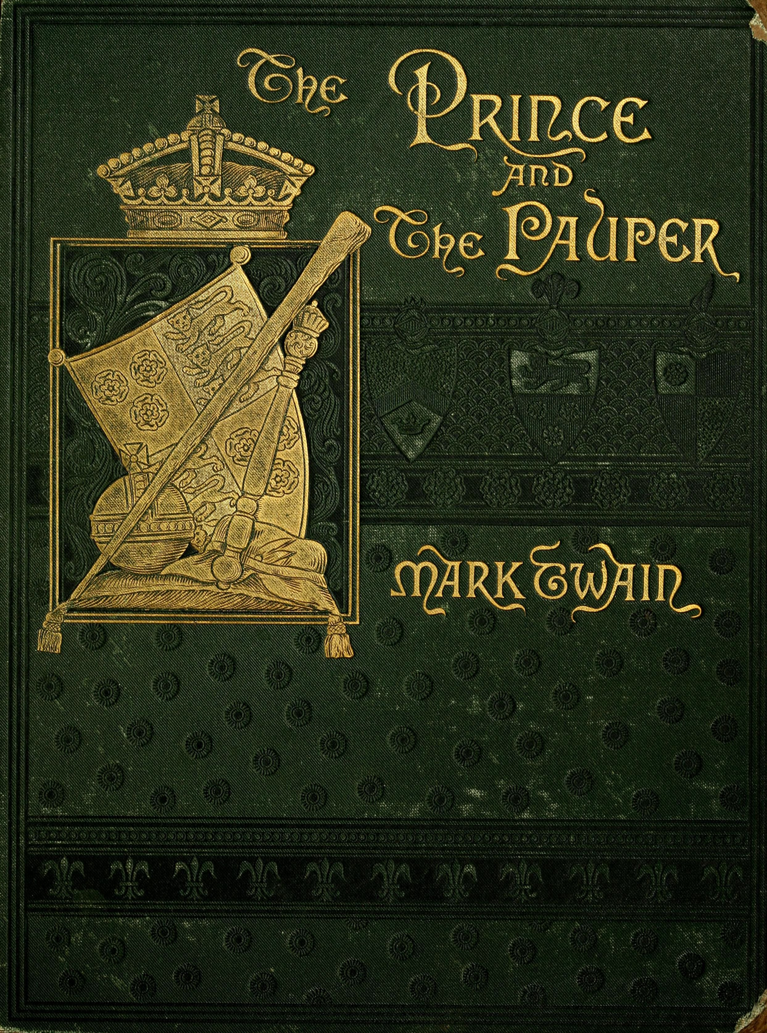 Bookcover of first edition of Mark Twain The Prince and the Pauper